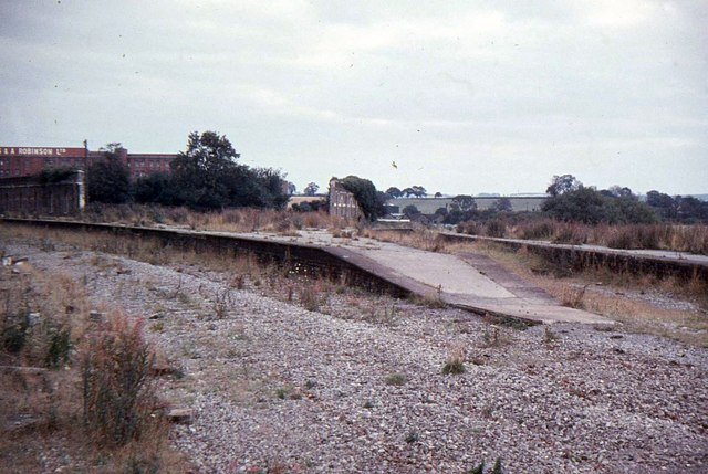 Mangotsfield railway station Original description: Mangotsfield Station Disused station, with track removed